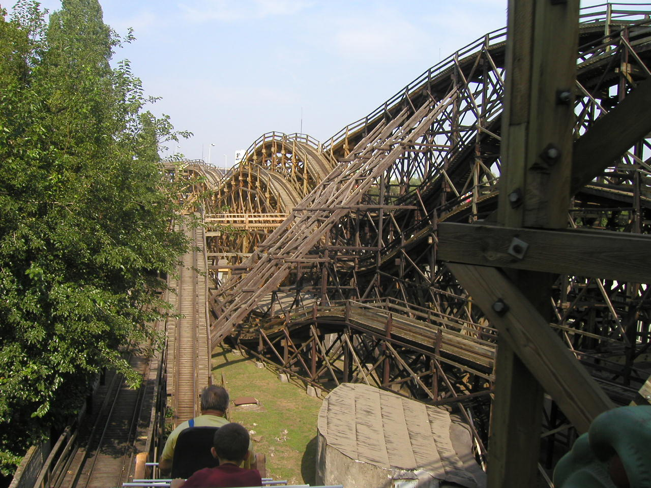 roller coaster Hullámvasút – on-ride (Vidámpark, Budapest, Hungary)